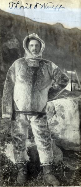 Thorild Wulff (1877-1917)